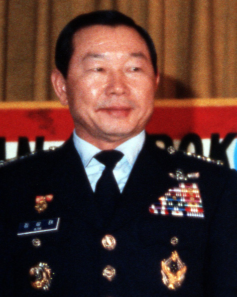 General Kim Sang-tae, Republic of Korea Air Force CHIEF of STAFF.